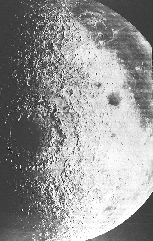 Mare Orientale or Orientale Basin. This image was taken by Lunar Orbiter 4.